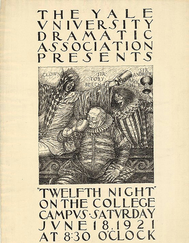 Poster for performances of William Shakespeare's play "Twelfth Night," performed by the Yale University Dramatic Association in 1921. Image courtesy of the Yale University Manuscripts & Archives Digital Images Database. Retouched by MarmadukePercy.